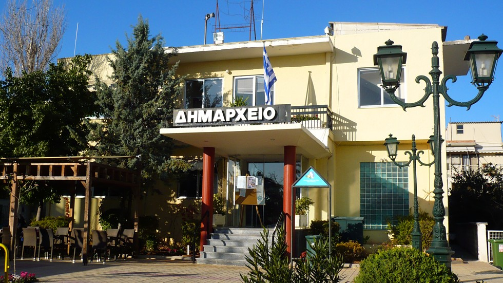 Pallini Municipality Hall, Greece.